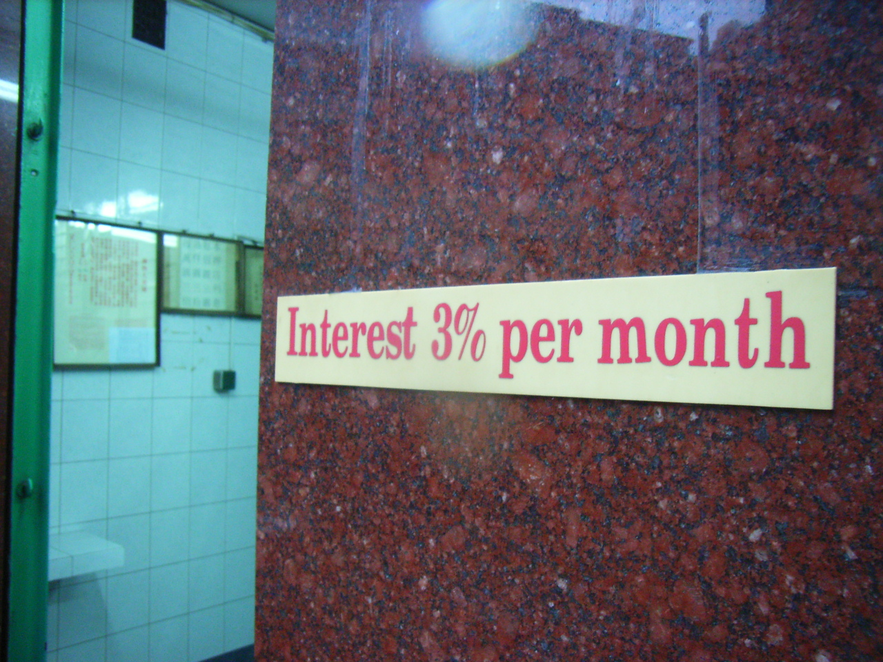 觀塘zh:裕民坊zh:華義樓